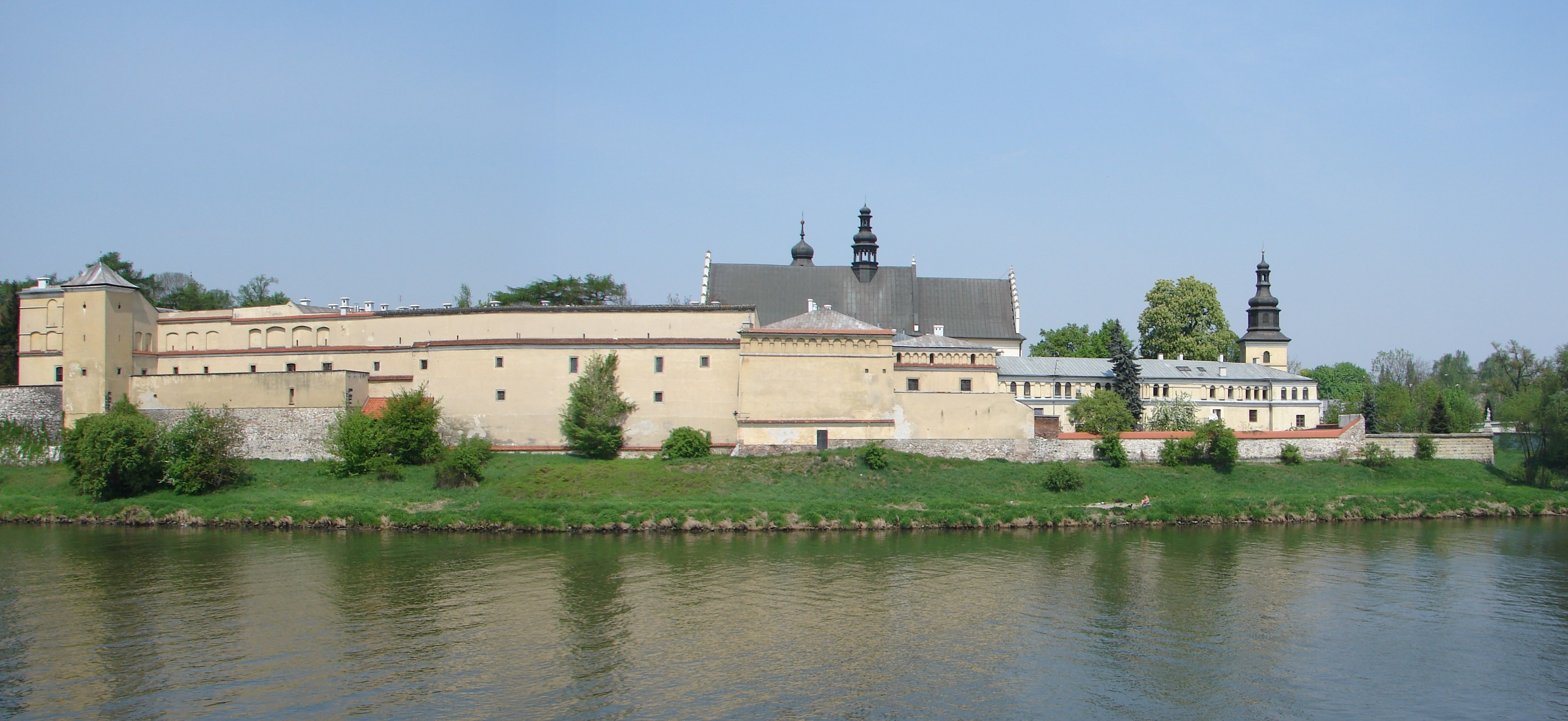 Monastery in Salwator, Krakow